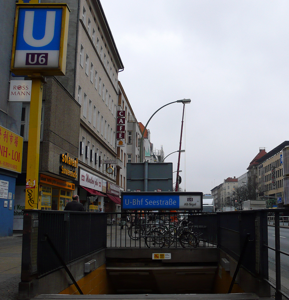 Subw Seestr entrance